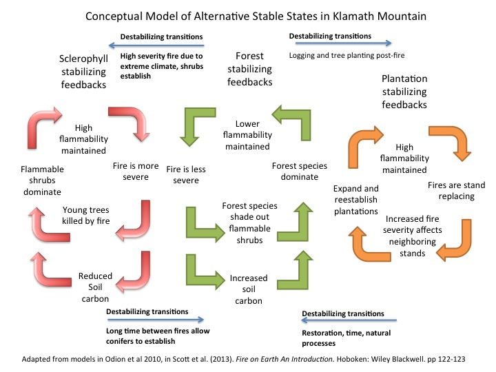 This model describes different vegetation types coexisting in the Klamath mountains as alternative stable states. This model is based off the work by Odion et al 2010, as described in Scott, A., Bowman, D. M. J. S, Bond, William J., & Alexander, Martin E. (2013). Fire on earth : An introduction. Chichester, West Sussex: Wiley Blackwell.